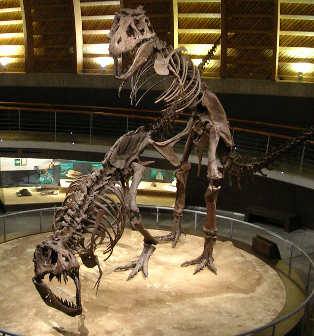 Mating Tyrannosaurs, Museo del Jurásico de Asturias.